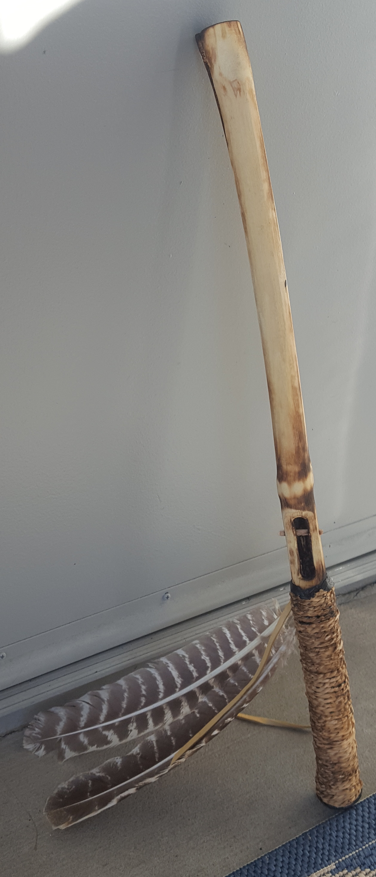 A clapper stick or split-stick rattle made by Chumash artisan Michael Kitfox Phillips, 2018.